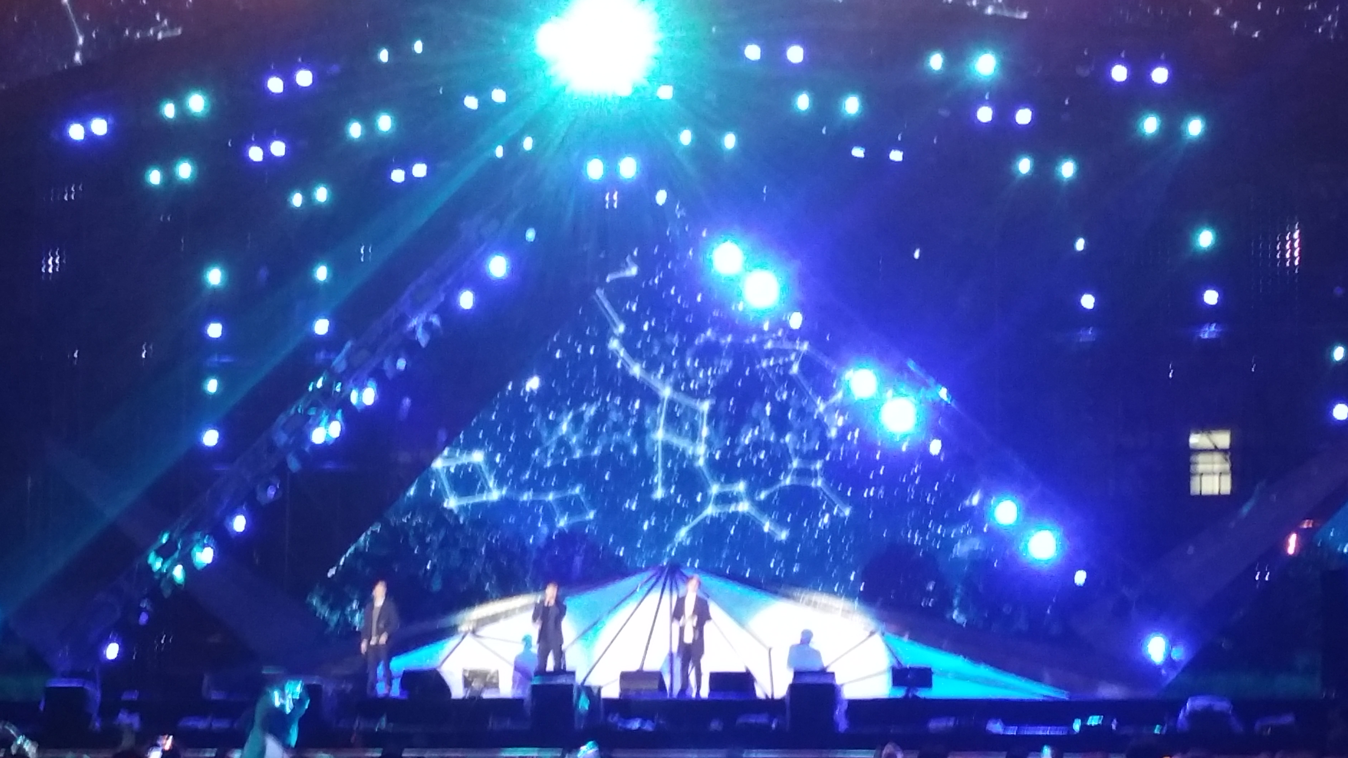 KCON JEJU 2015, stadium concert performers SG Wannabe, November 7, Jeju Stadium, Jejudo, South Korea.